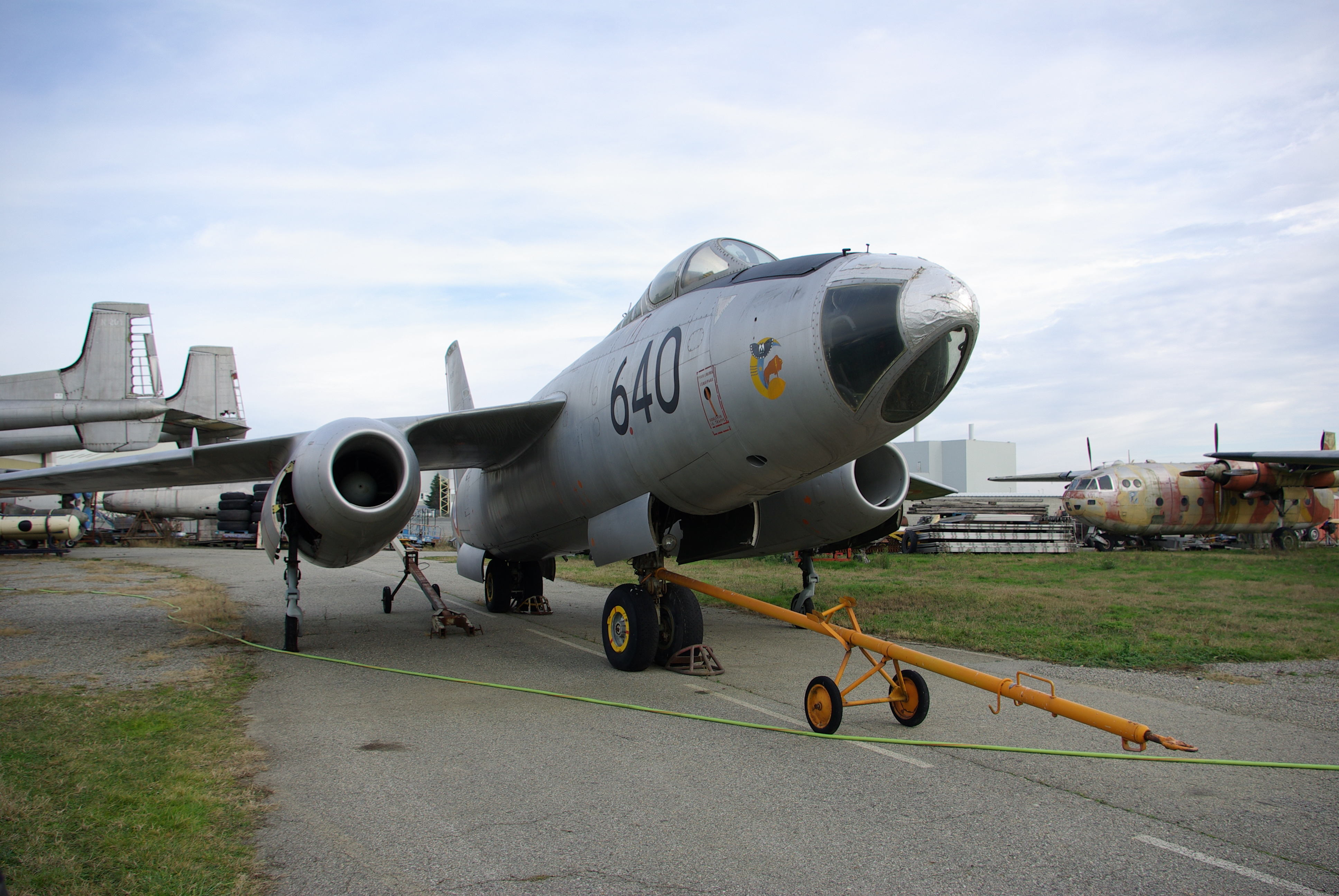 The bomber SNCASO SO.4050 Vautour IIB S/N 640 displayed at the musée des ailes anciennes (Toulouse, France)